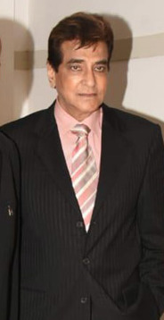 Jeetendra and Rakesh Roshan at a wedding reception